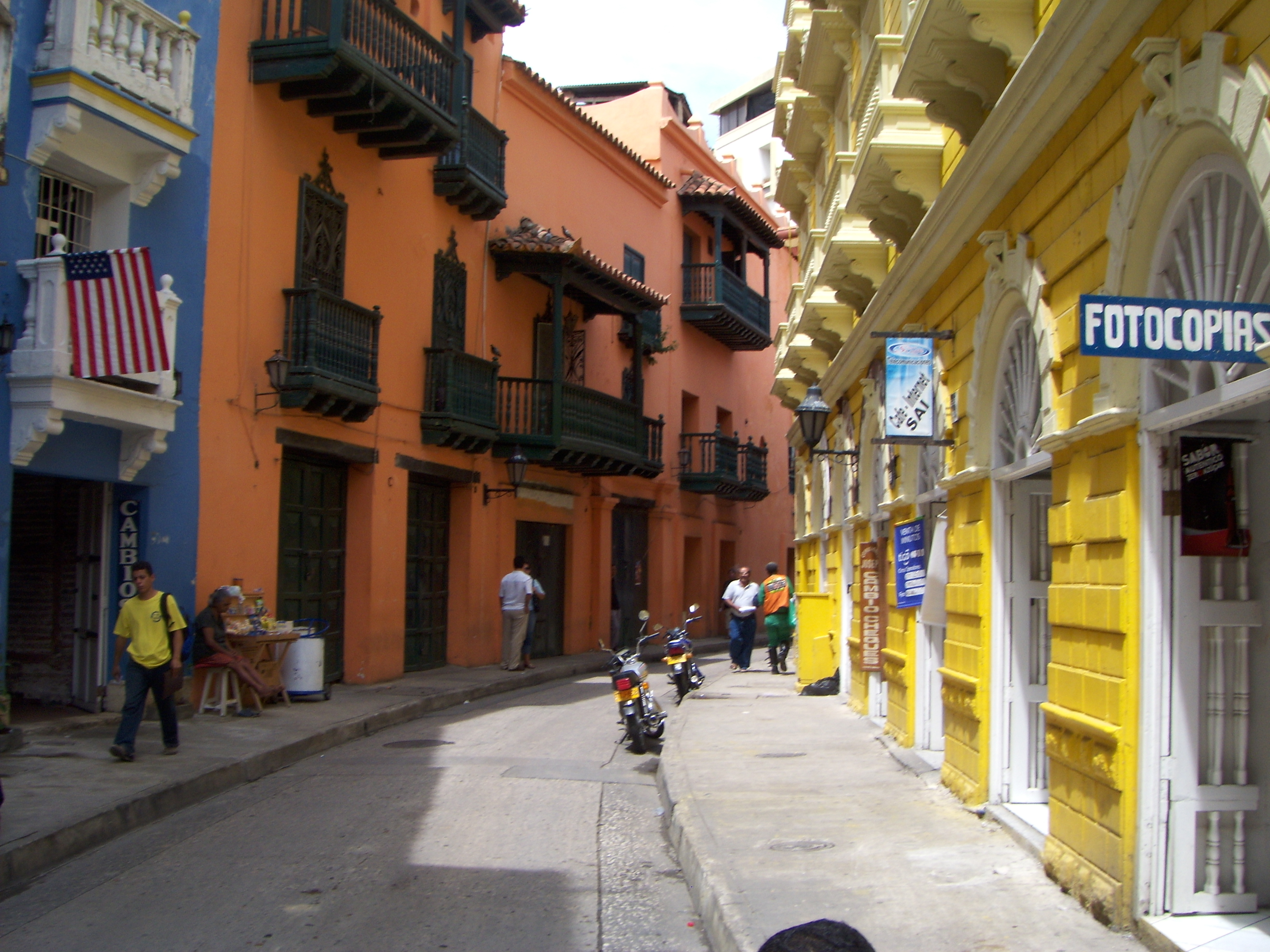 A colorful and narrow city in the historic section of Cartagena de Indias. This section of town is bustling with natives and tourists alike.